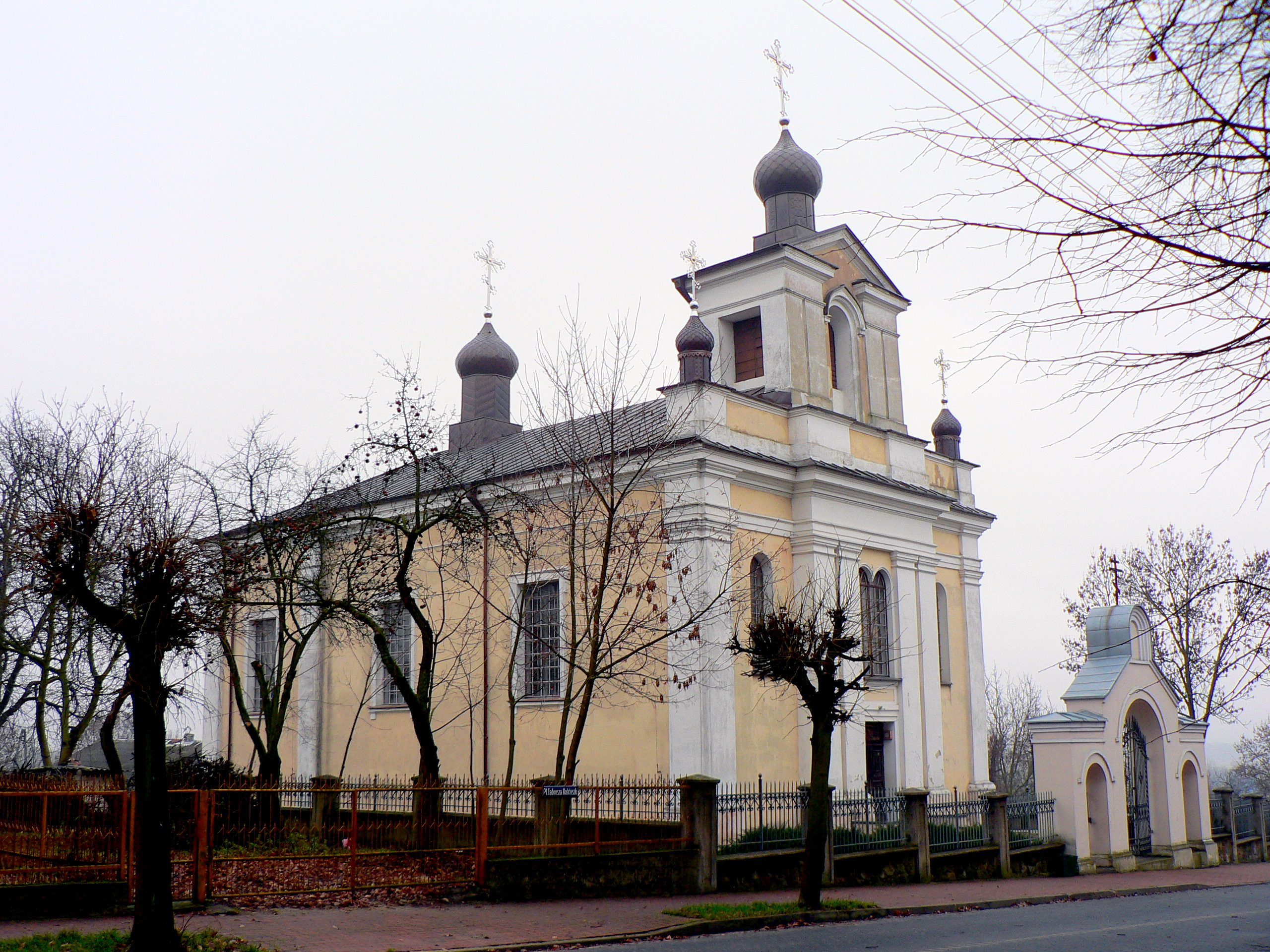 St. Nicolas Orthodox (previously uniate) church in Drohiczyn, Poland; 18th century